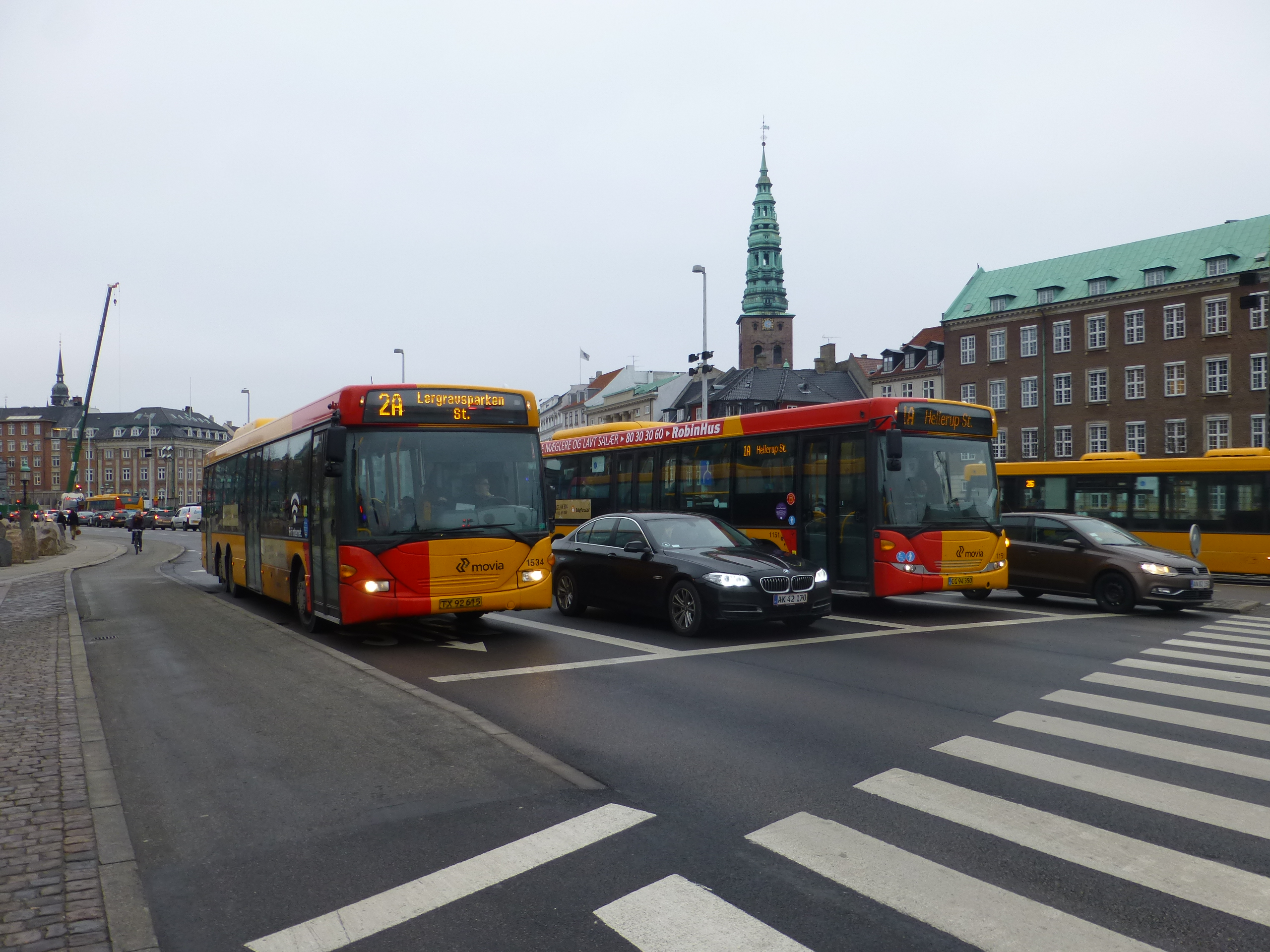 Movia bus line 2A and 1A at Christiansborg Slotsplads in Indre By in Copenhagen.